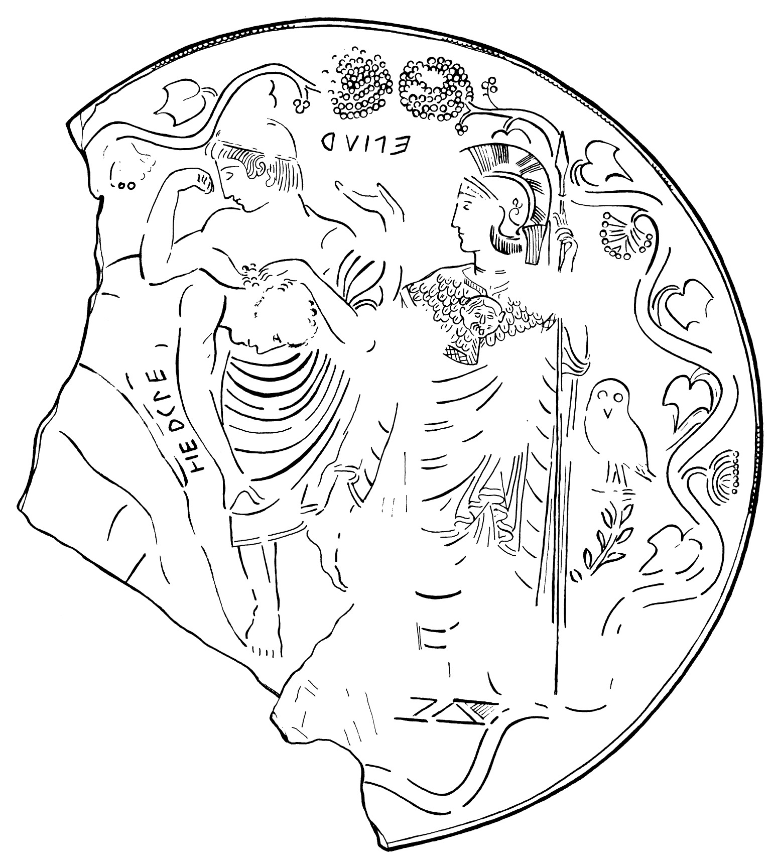 Etruscan Bronze mirror from Vulci. Berlin, Staatliche Museen, Antikensammlung. 425-400 BCE. Shows Hercle picking up a young adult Epiur with Menrva looking on.